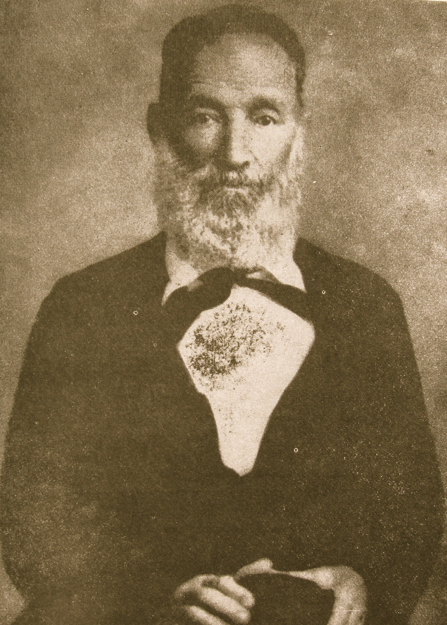 Robert Sayers Sheffey (1820-1902), Methodist evangelist and circuit rider in southwestern Virginia